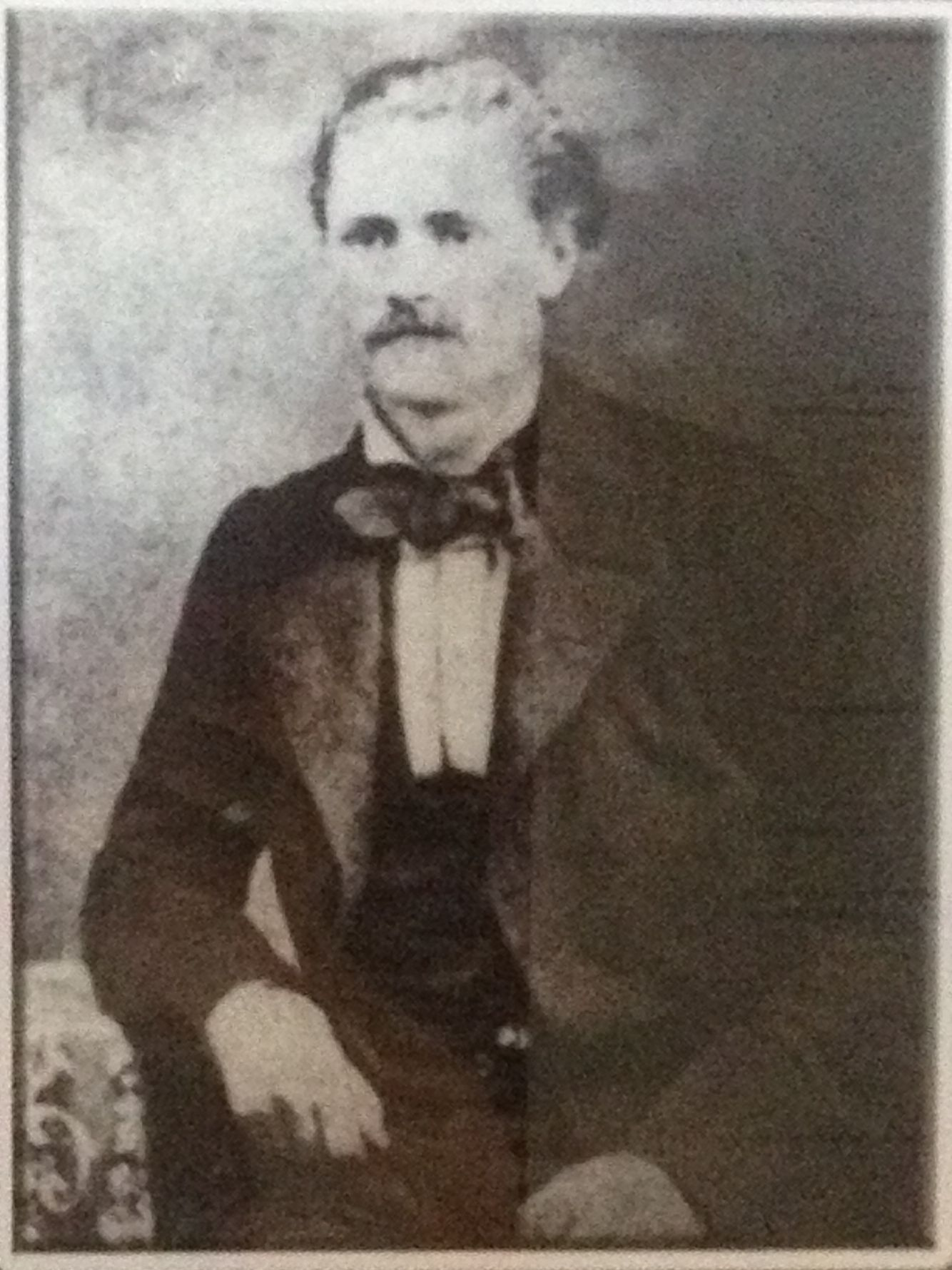 Carl Julius Adolph Kuhlmay, Foto im Spicarium Vegesack (